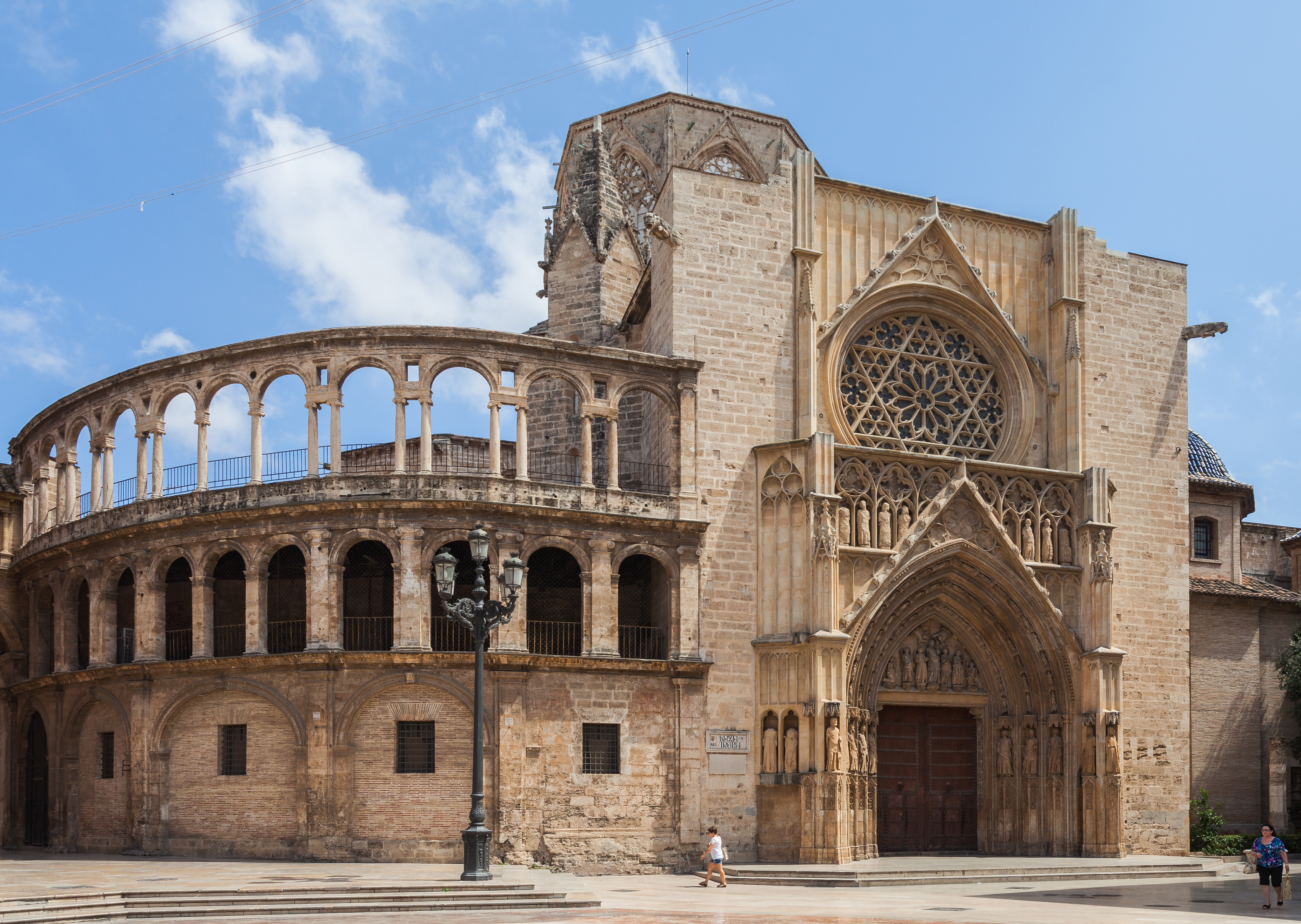 Valencia Cathedral, Valencia, Spain